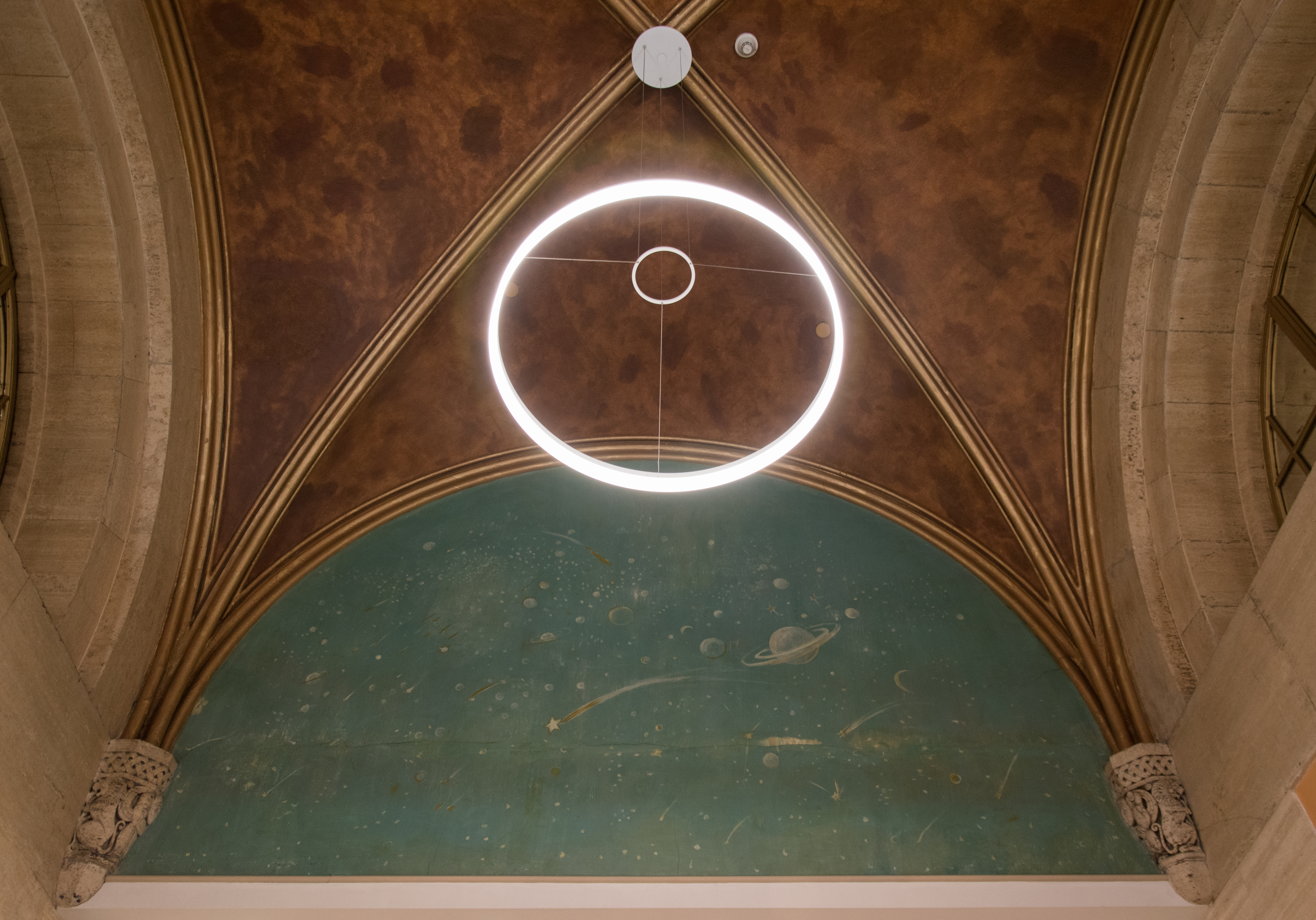 Central Cellars in New York City's Grand Central Terminal in 2019. Taken as part of a scheduled photoshoot with three other Wikipedians on January 7, 2019.